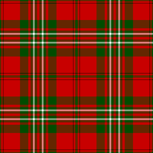 Scott tartan, as published in the Vestiarium Scoticum. Modern thread count: G8 R6 Bk2 R56 G28 R8 G8 W6 G8 R8.